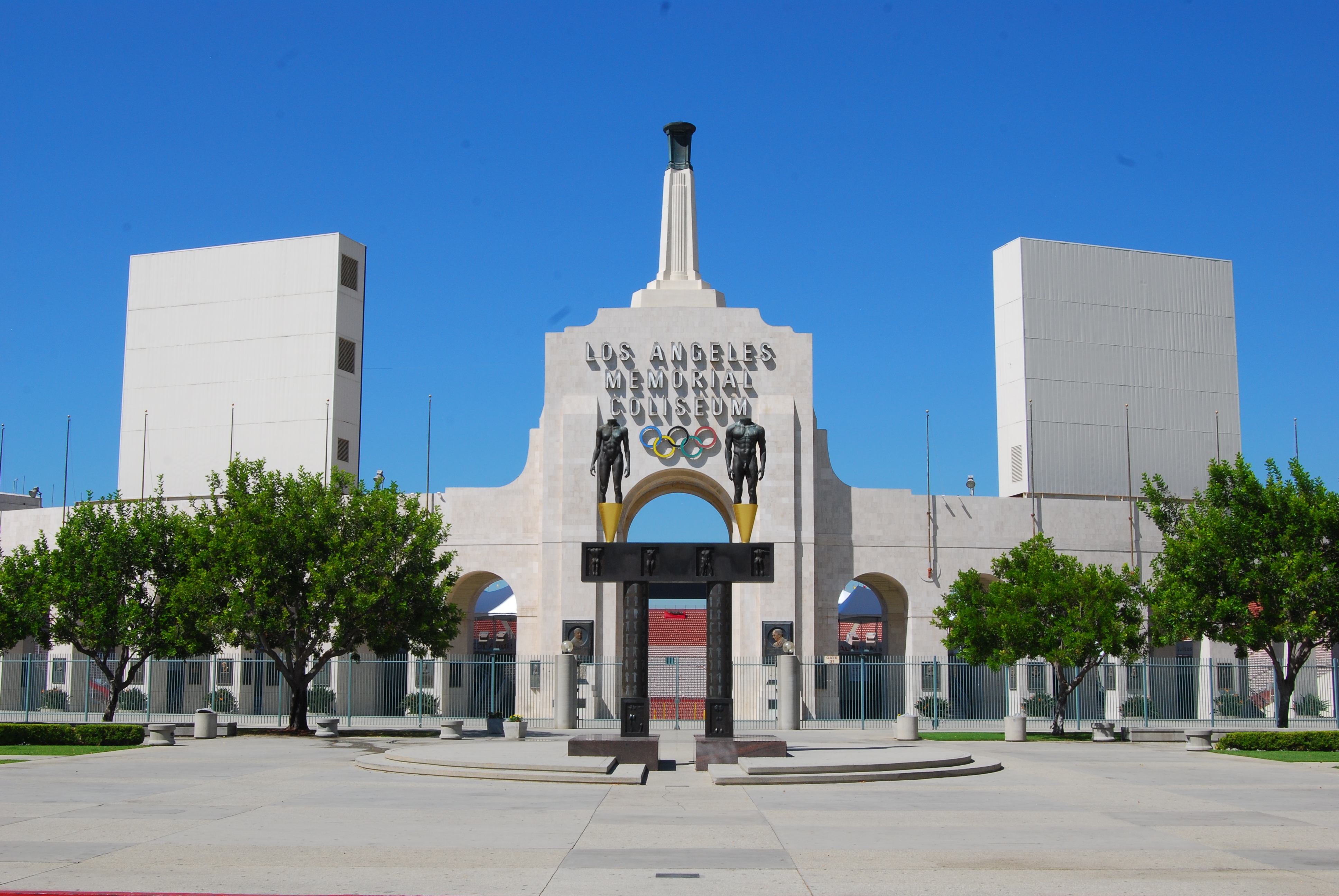 The Los Angeles Memorial Coliseum entrance plaza and facade. Located in Exposition Park, central Los Angeles, Southern California.